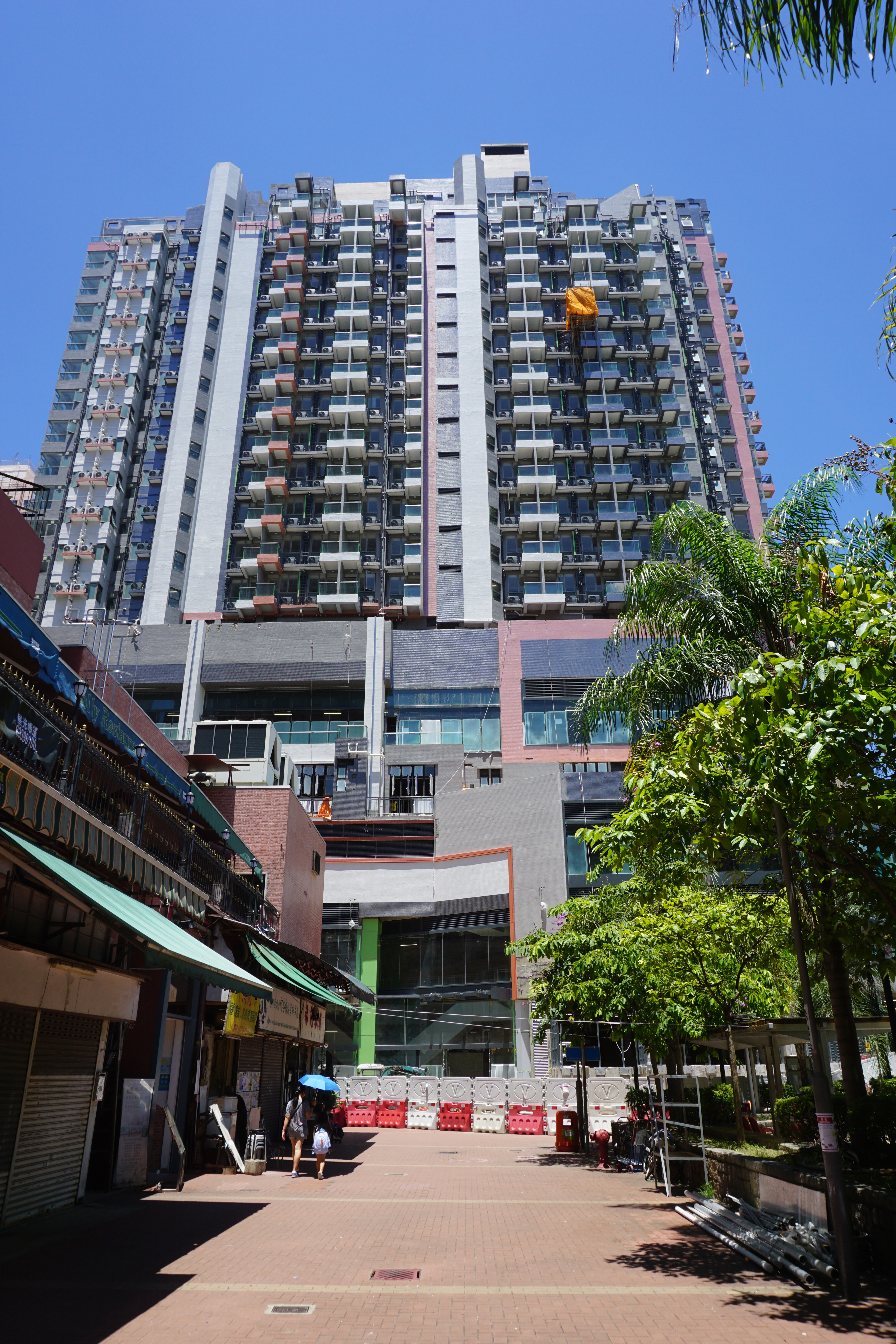 T Plus in Tuen Mun, Hong Kong.